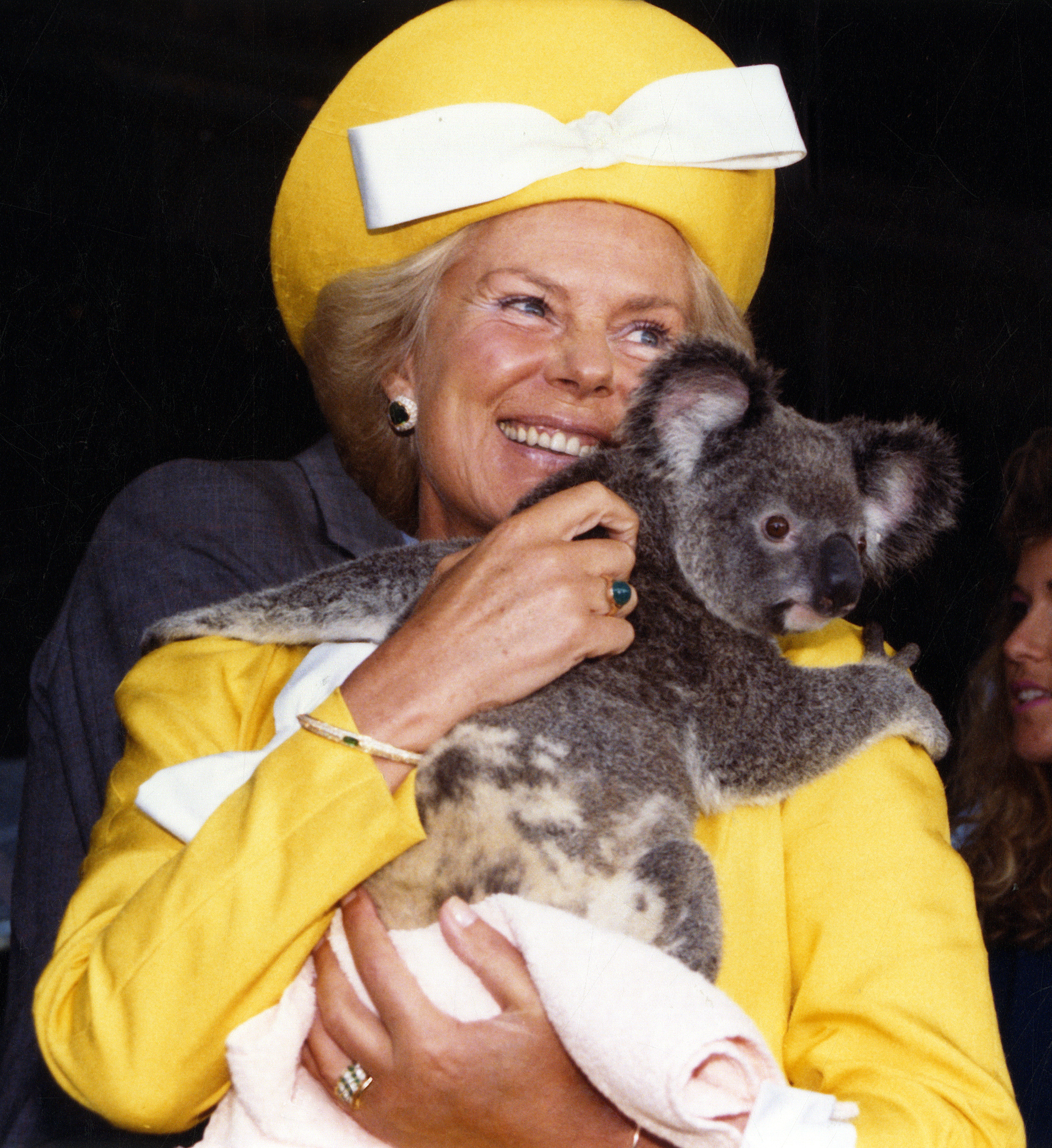 HRH The Duchess of Kent with koala at Expo 88, Brisbane, 1988 Queensland State Archives Digital Image ID 7986